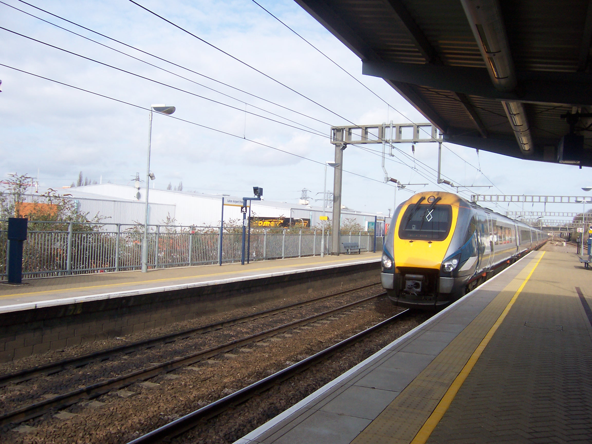 A Midland Mainline Meridian (Class 222) bolts through Luton Airport Parkway.